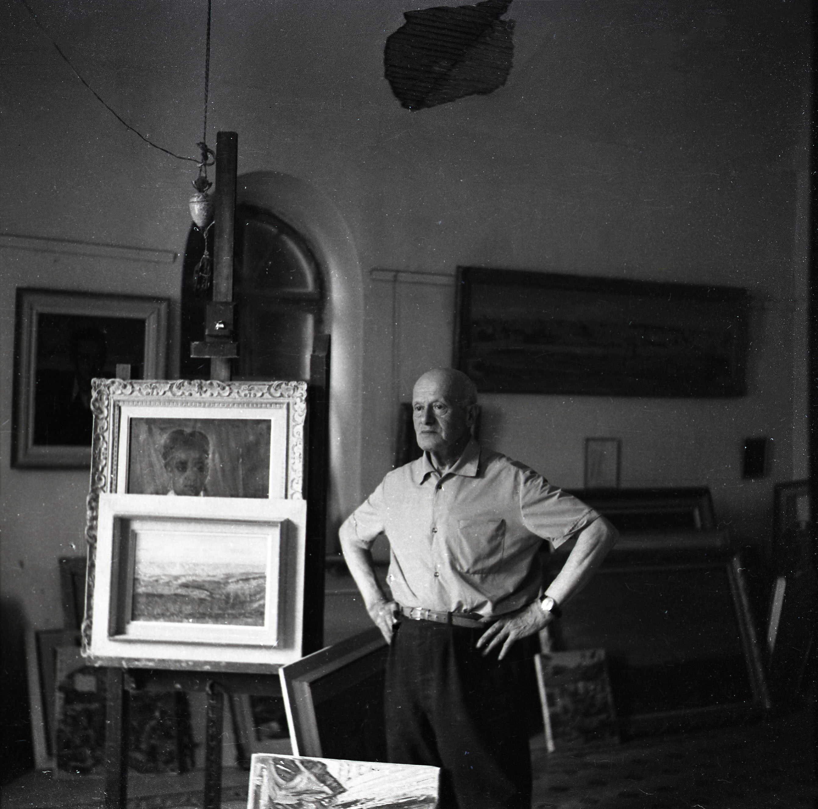 Painter Adnan Varınca at the workshop, 1965 SALT Research, Eliza Day Archive